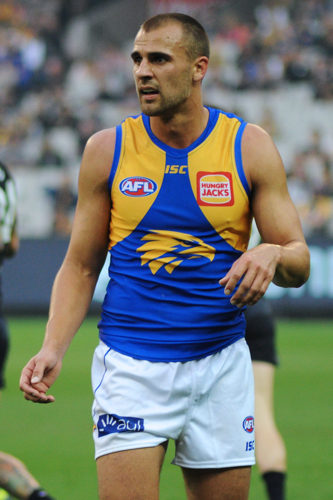 Dom Sheed during the AFL round five match between Carlton and West Coast on 21 April 2018 at the Melbourne Cricket Ground in Melbourne, Victoria.